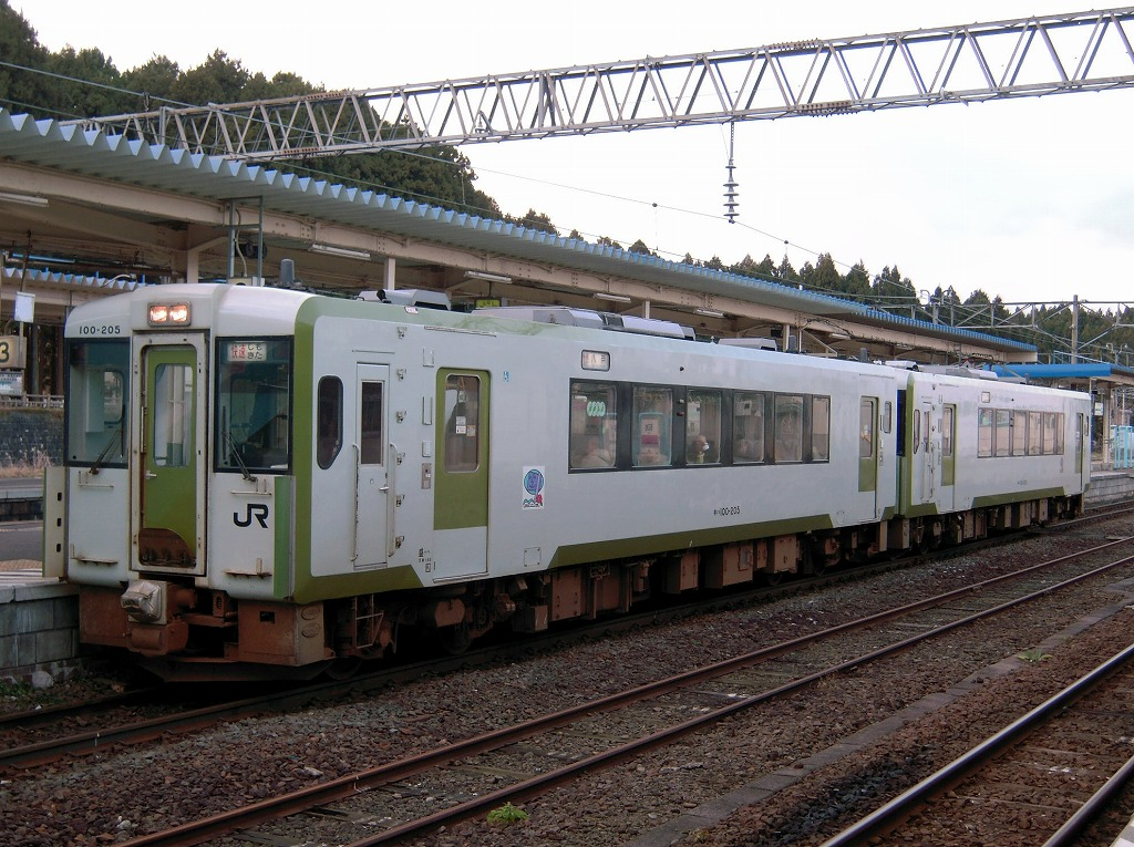 JR East KiHa 100-200 series DMU led by KiHa 100-205 on an Ominato Line "Shimokita" rapid service at Noheji Station